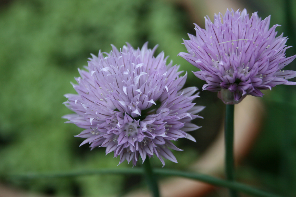 Chives